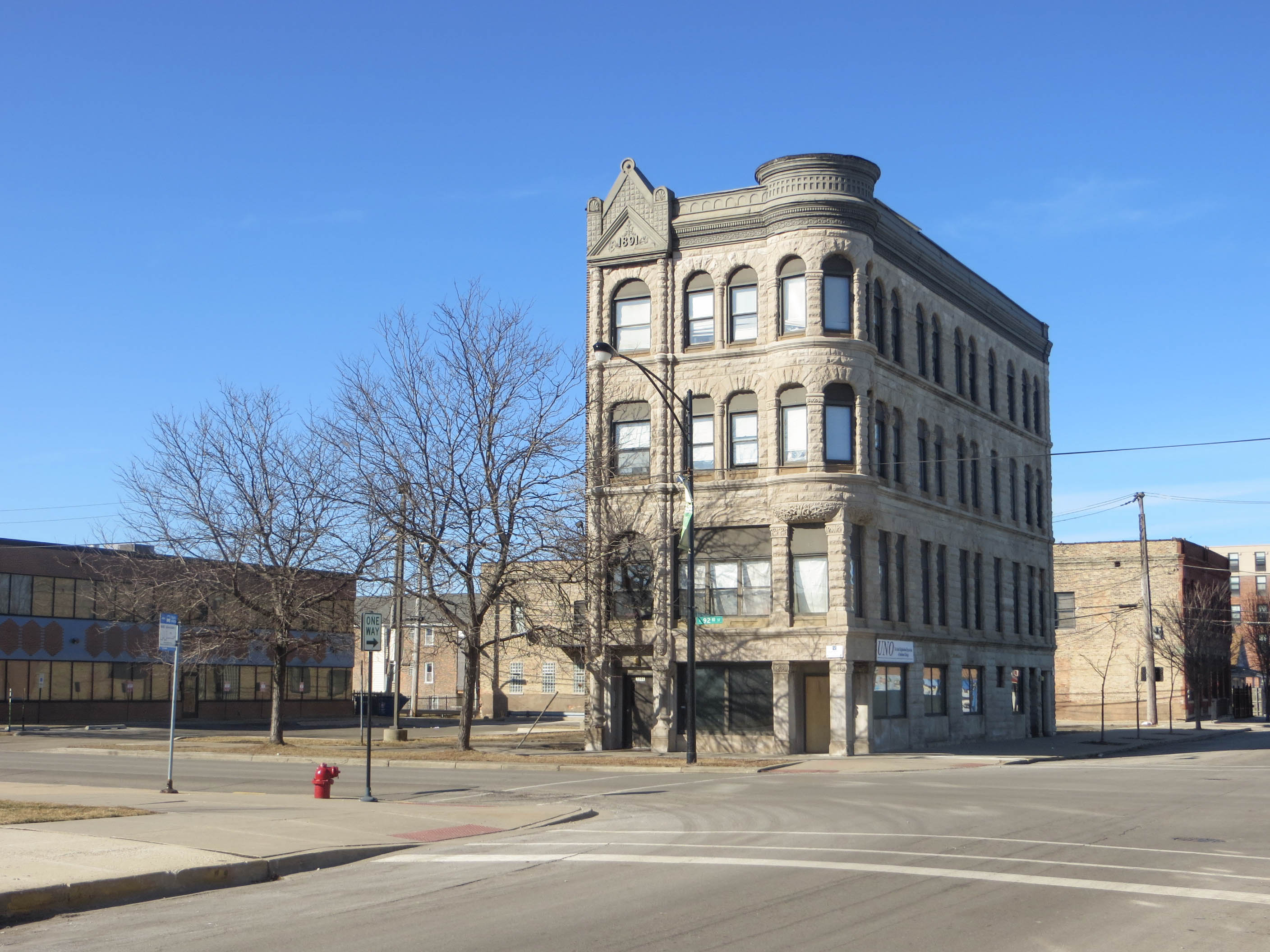 20160220 65 Baltimore Ave. @ 92nd St